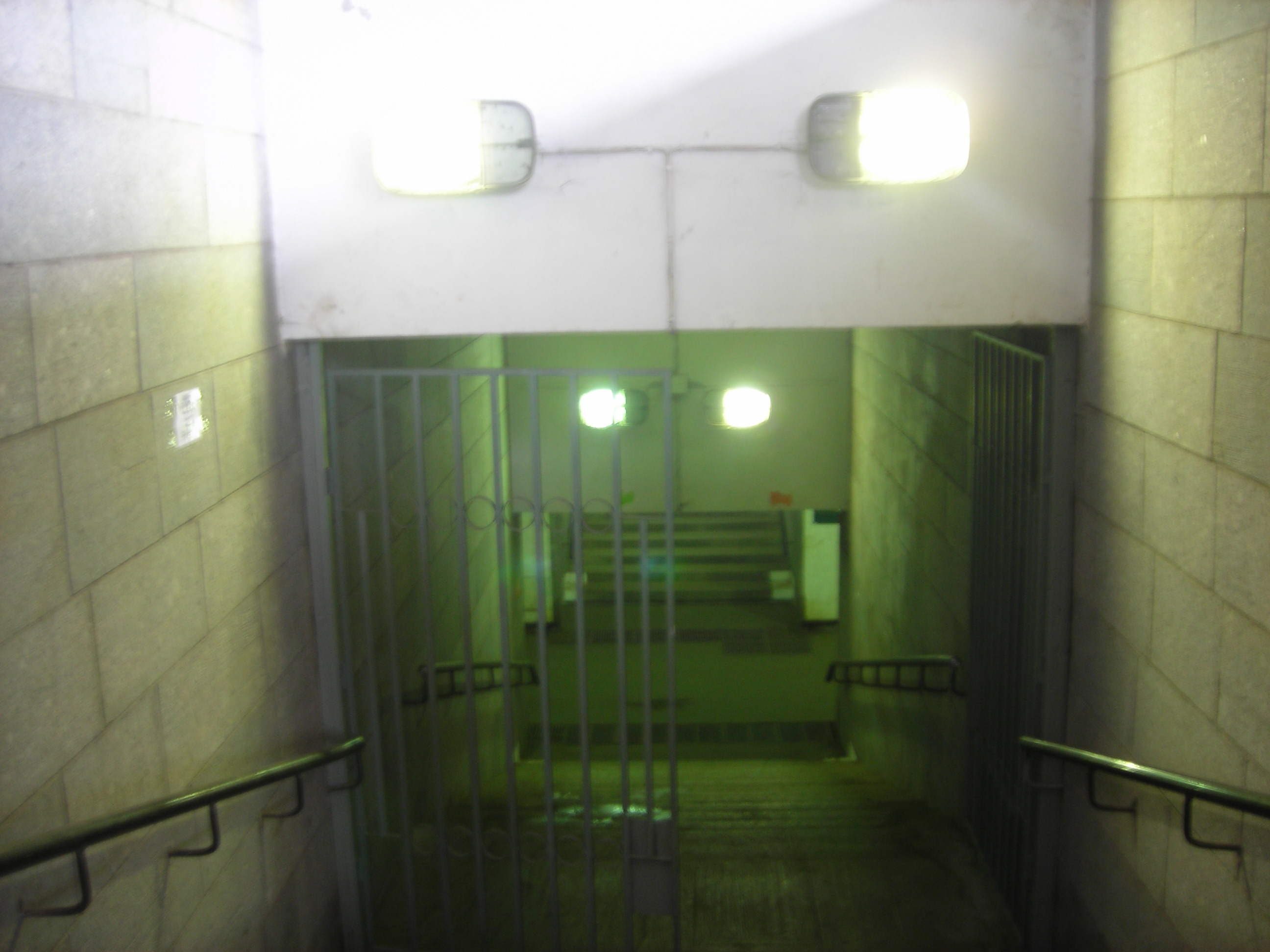 Underground crossing in Devyatkino